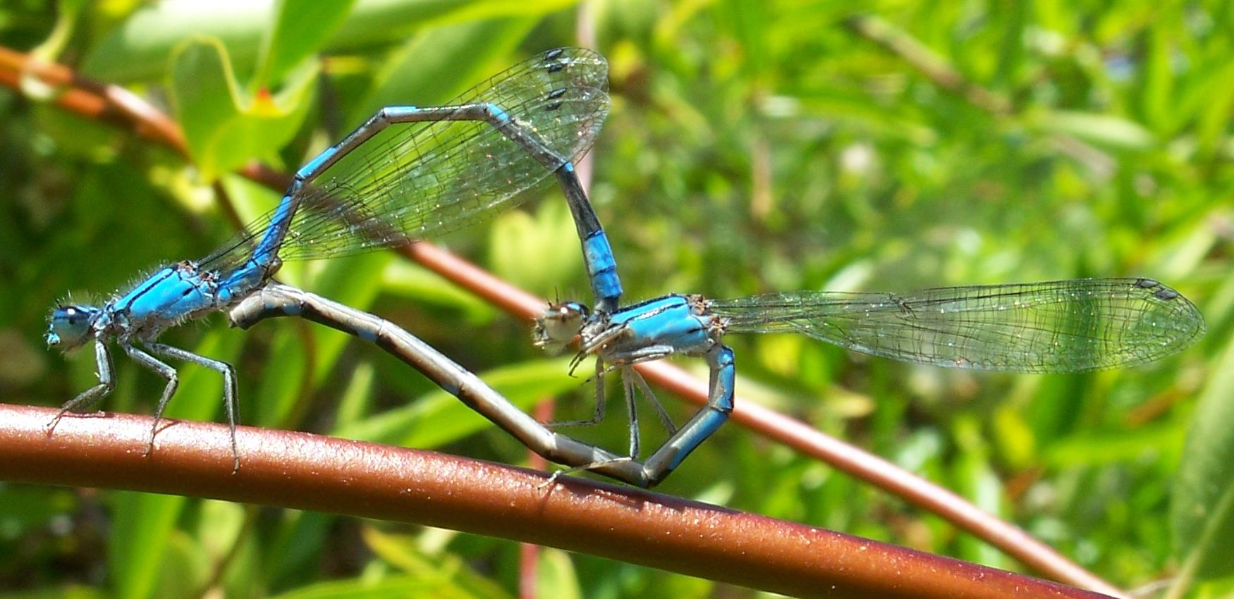 Tule Bluet, beginning of copulation